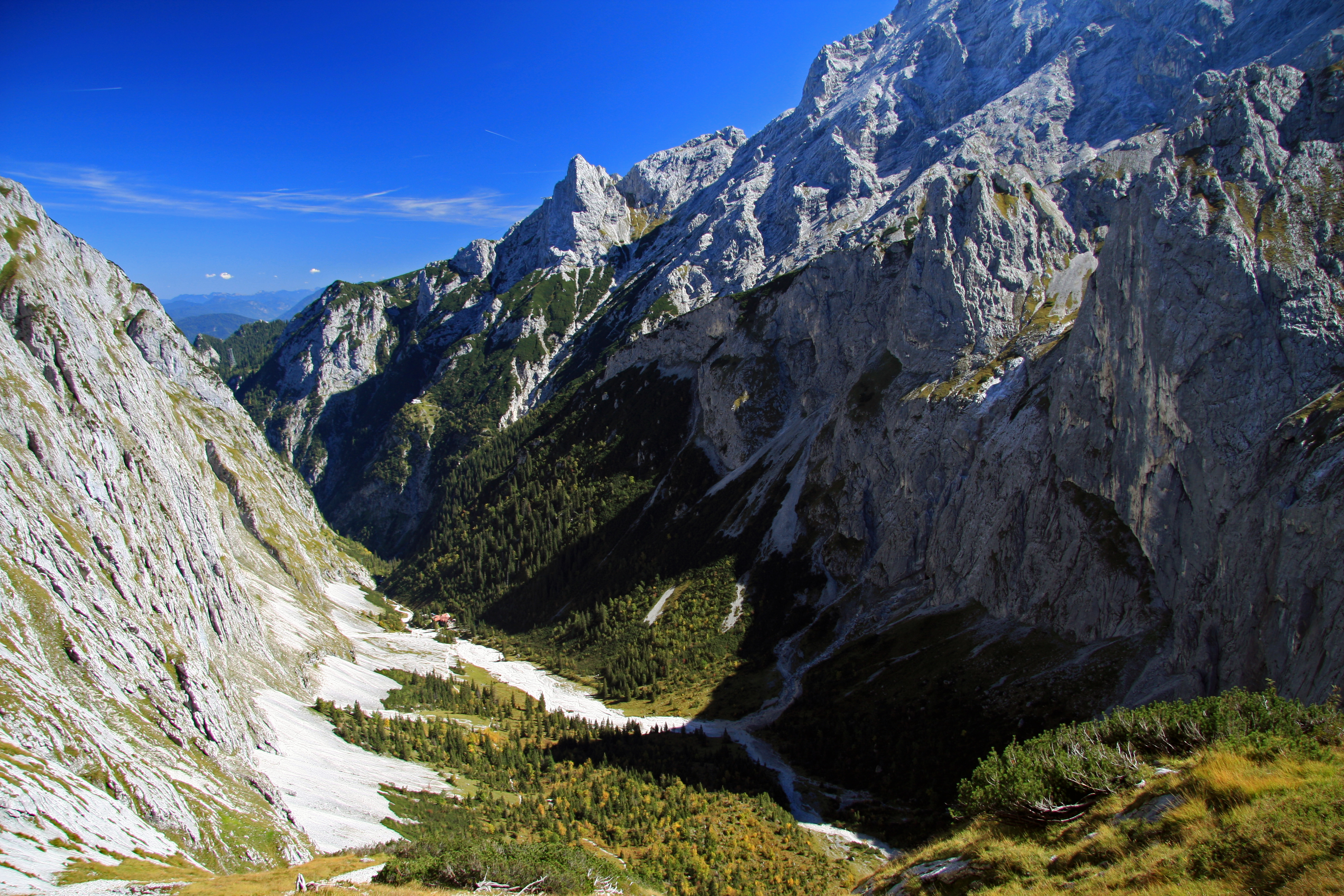 Höllental - Wetterstein mountains